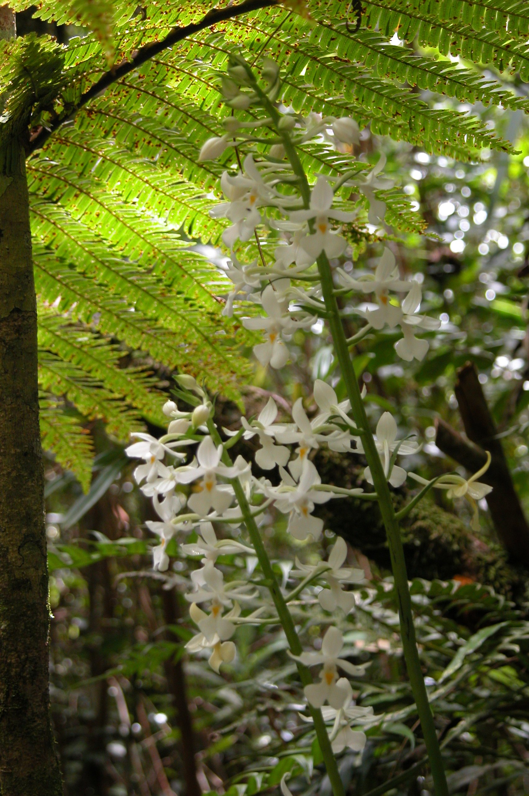 Calanthe sylvatica